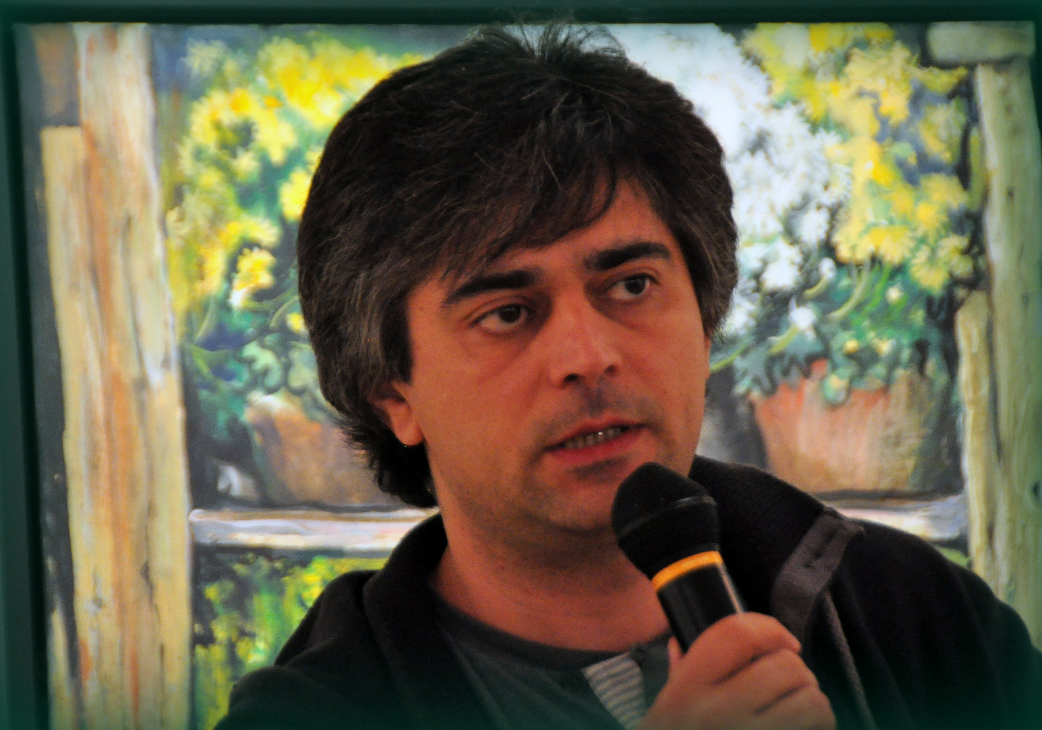 Ukrainian writer and literary critic Oleksandr Boychenko during the presentation in Ukrainian-Canadian Art Foundation in Toronto (Shevchenko Scientific Society meeting Oct. 31, 2014)